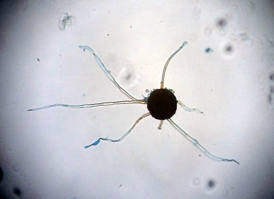 Closed Cleistothecium of Uncinula necator. The asci are within the Cleistothecium.